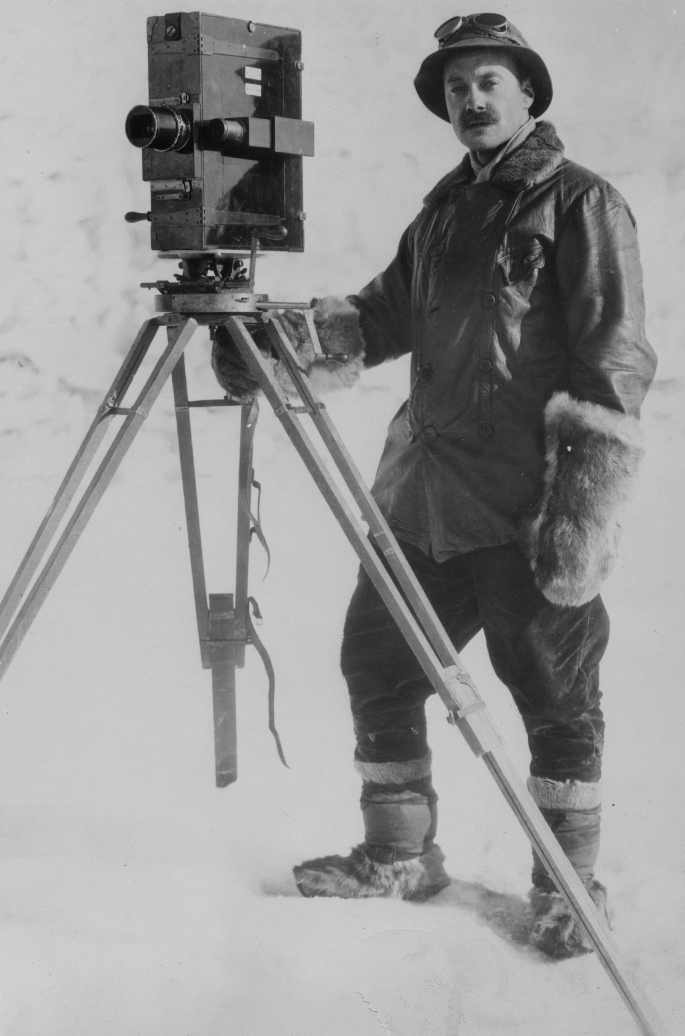 Herbert Ponting, photographer on Robert Falcon Scott's last expedition to the Antarctic, 1910